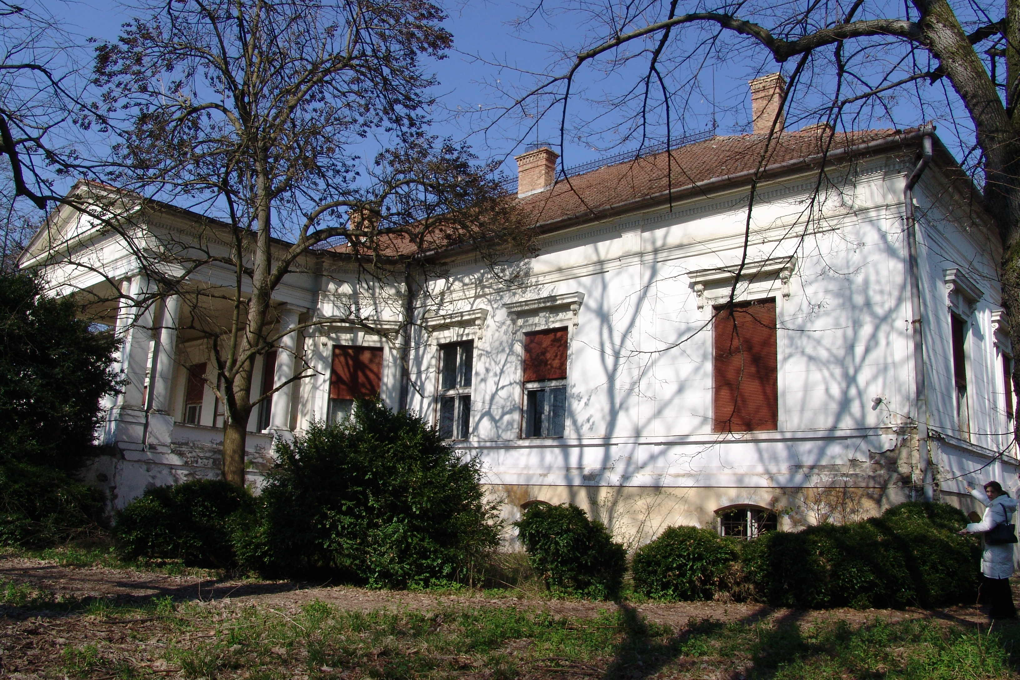 Sokolac castle near Novi Bečej